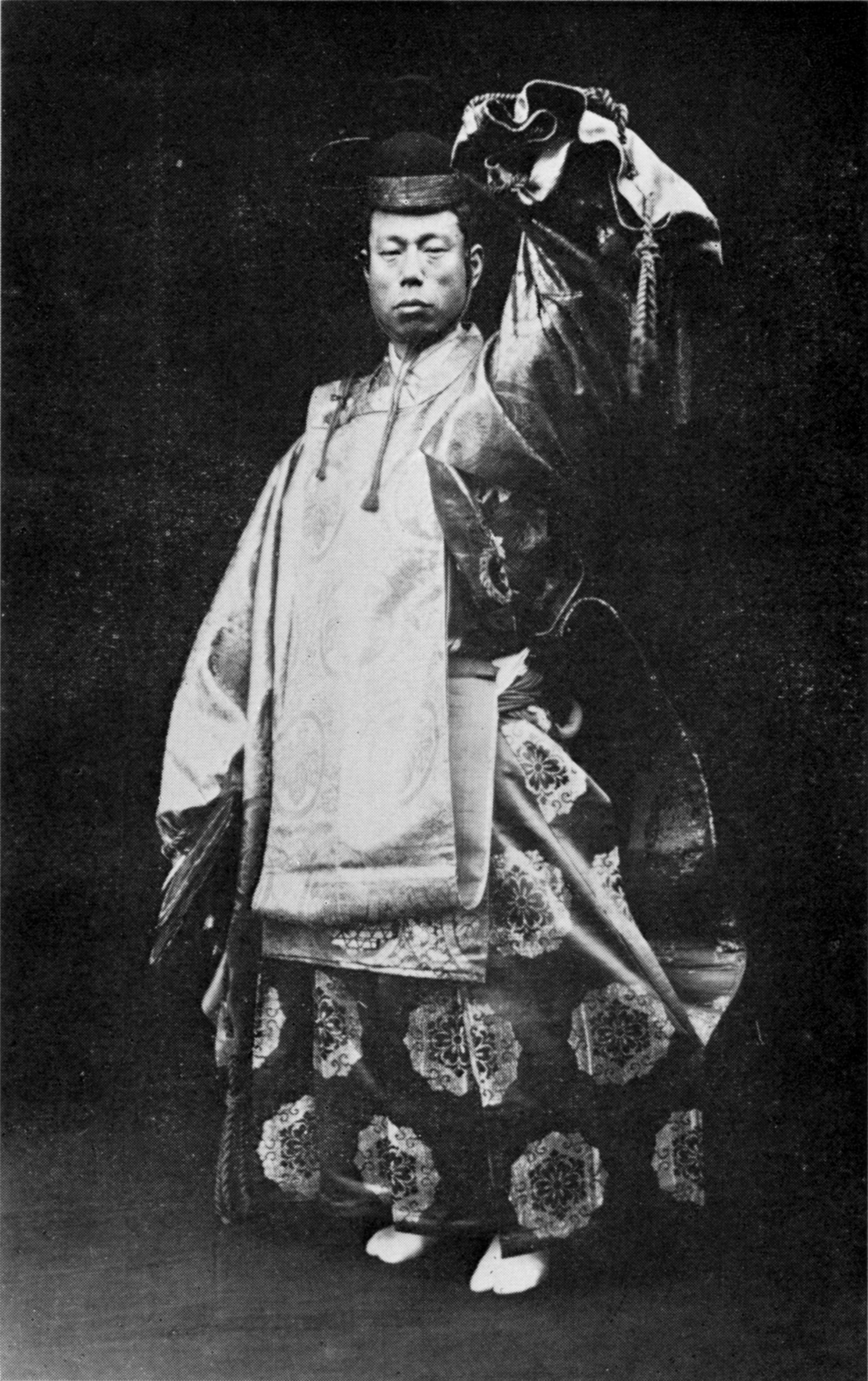 Japanese Noh actor KANZE Kiyokado(1867 - 1911)